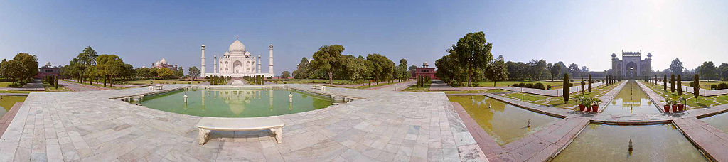 (A panoramic view from the "Celestial Pool of Abundance", in the Chahar Bagh "Gardens of Paradise" at the Taj Mahal monuement in Agra. )